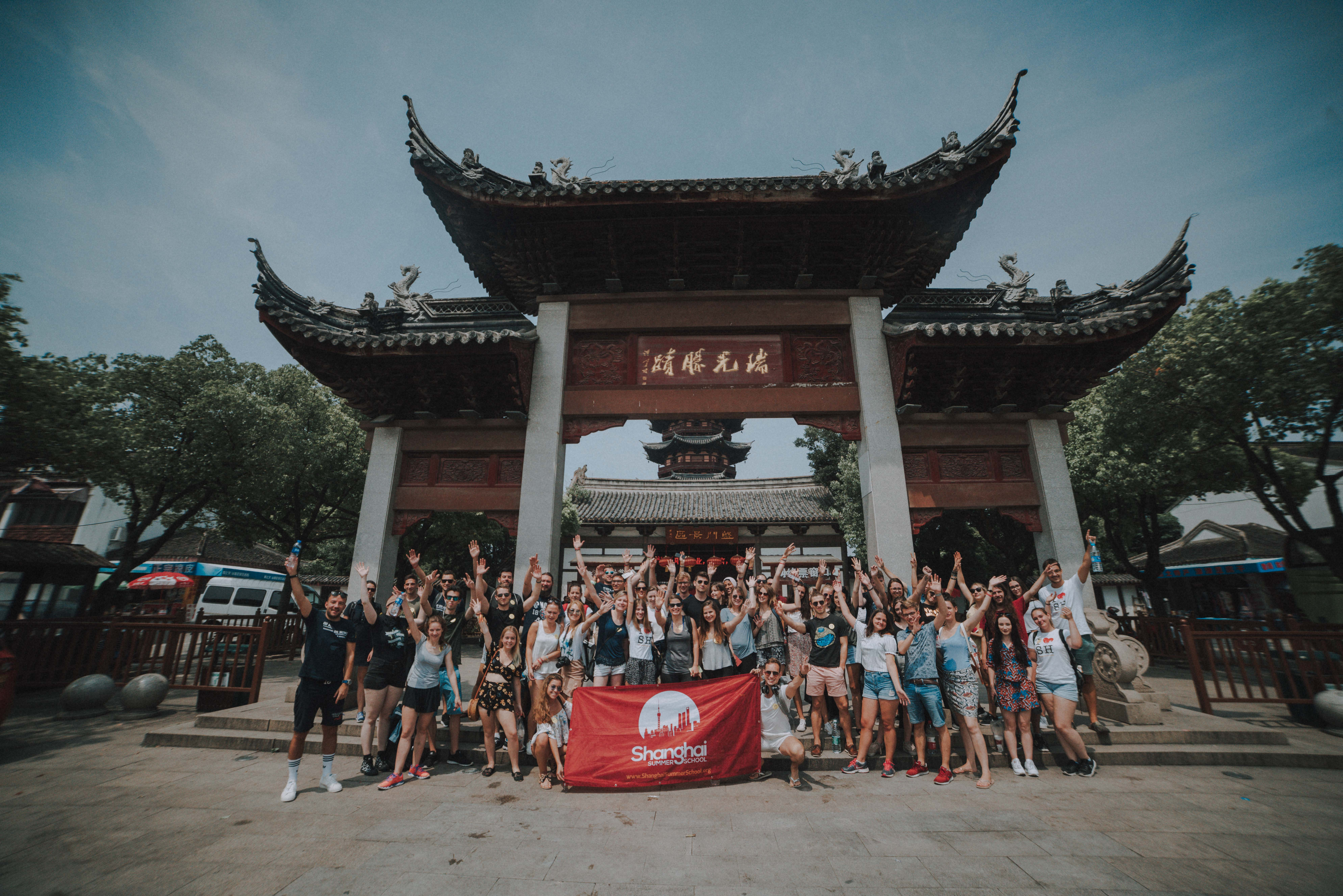 Day trip to Suzhou during the Shanghai Summer School 2018